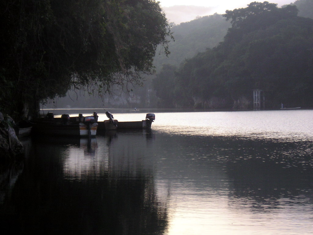 The Pinacanauan River, seen just below the Callao Caves, is one of the major tributaries of the Cagayan River.